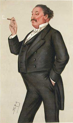 Caricature of Mr E.H. Yates. Caption reads: "The World".